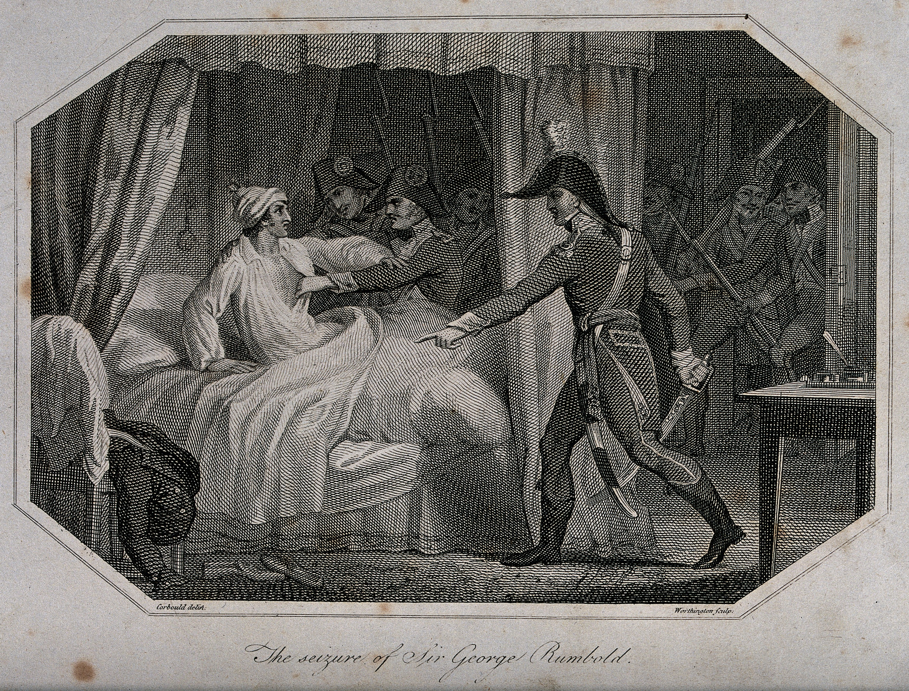 The seizure of Sir George Rumbold by French troops in his bedroom in Hamburg on the night of the 25 October 1804. Line engraving with etching by W.H. Worthington after H. Corbould, 1804. Iconographic Collections Keywords: Bernadotte; Sir George Berriman Rumbold; Henry Corbould; William Henry Worthington; J. Fouché; Napoléon I